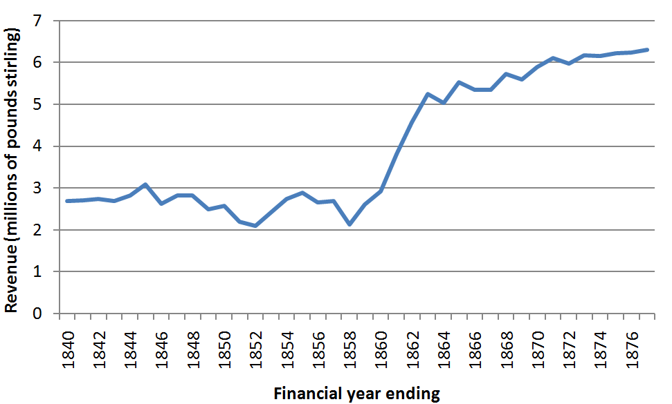 The revenue collected by the East India Company (after 1858 the British government) from salt (including inland and port taxes and sale of government salt). Figures from